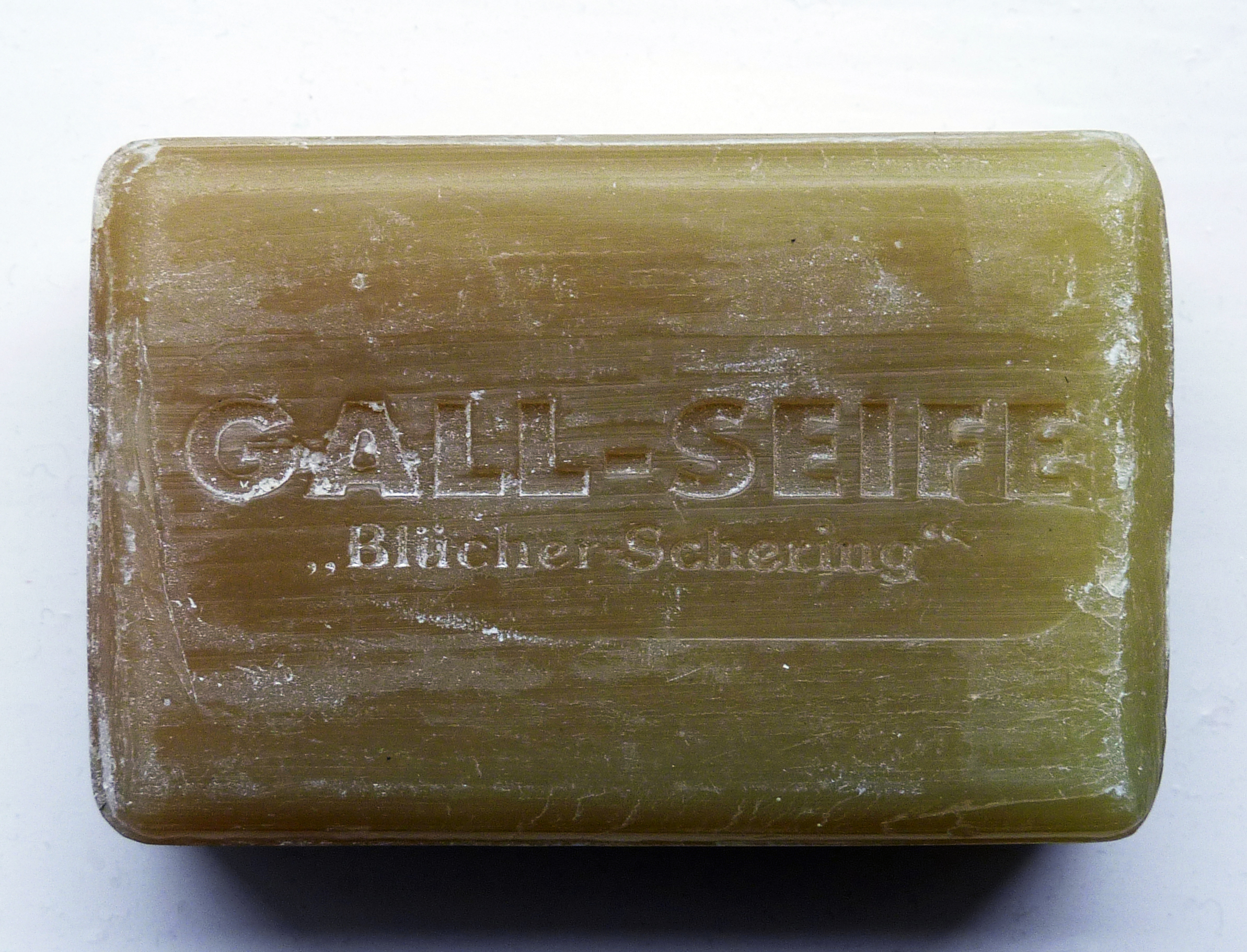 A piece of gall soap, especially suited for spot removal, for example grease, fruit, ink, wine. It contains cattle bile and is described by its manufacturer, the firm Blücher-Schering (in Lübeck, Germany), as "natural, thorough, environmentally safe".